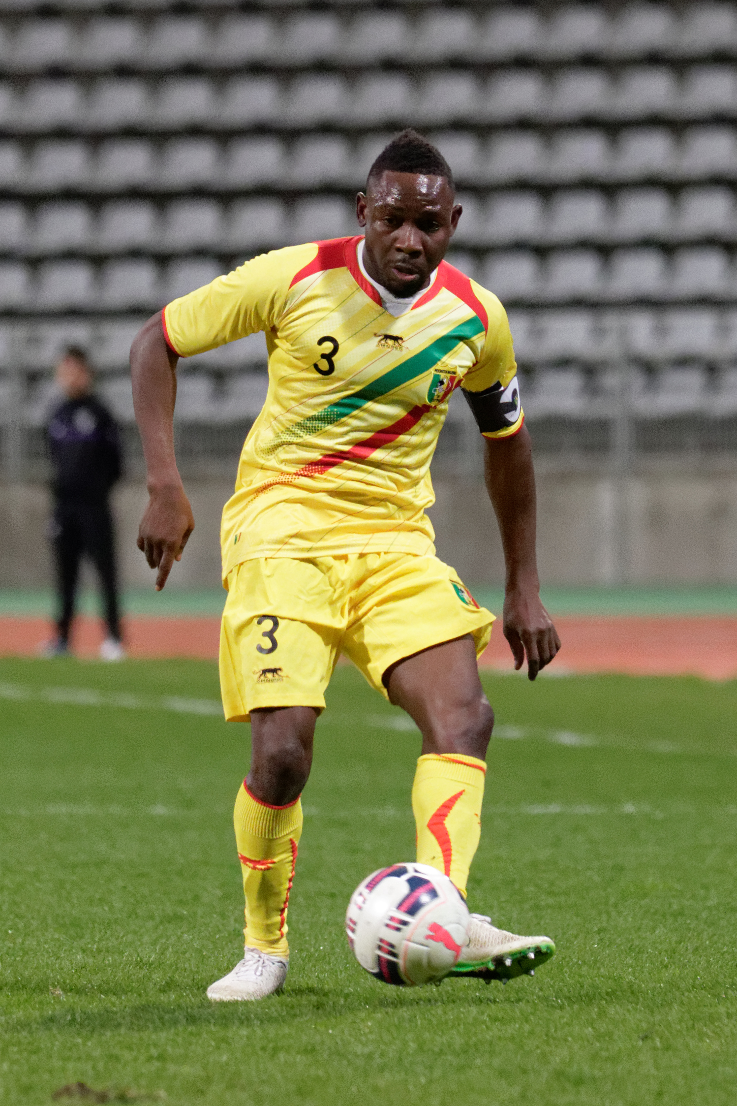 Mali vs Ghana, exhibition game at Paris, 31st March 2015.